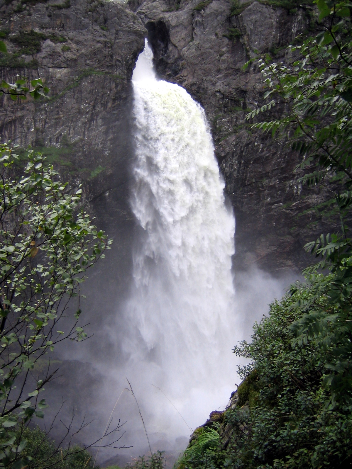 Månafossen, Norway